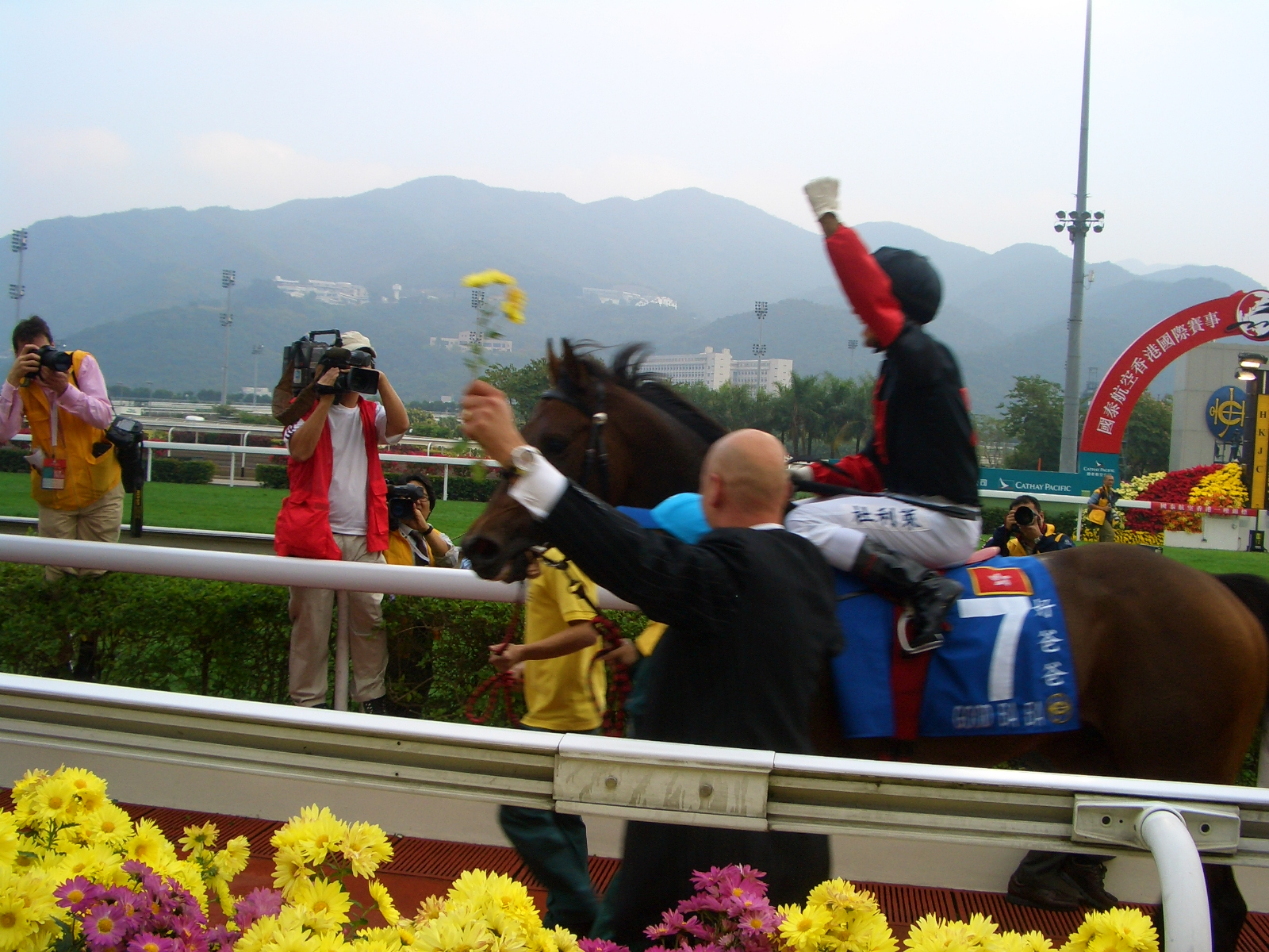 Good Ba Ba (Chinese:好爸爸) won Hong Kong Mile